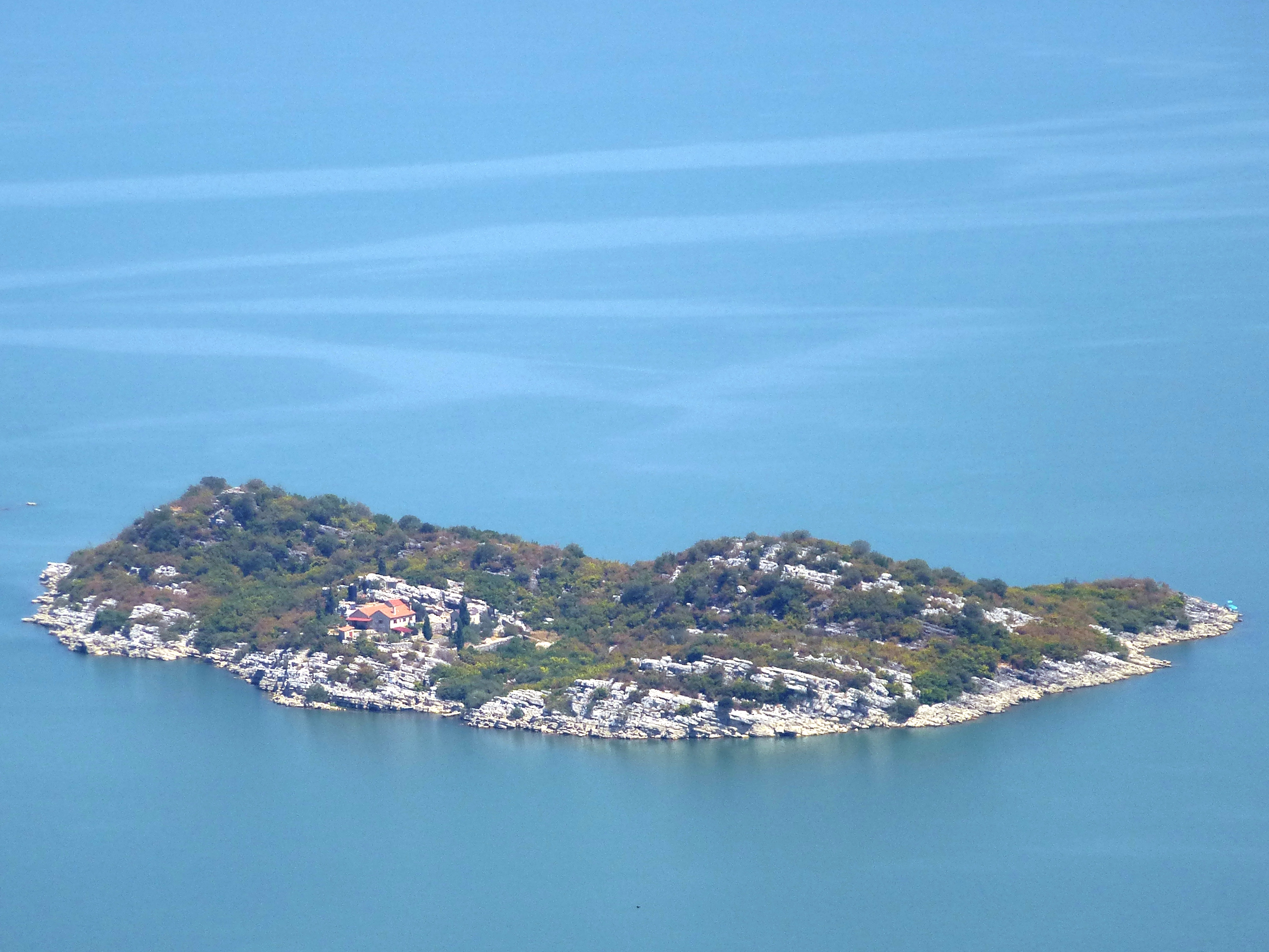 Starčeva Gorica or Starčevo Island, Lake Skadar, Montenegro